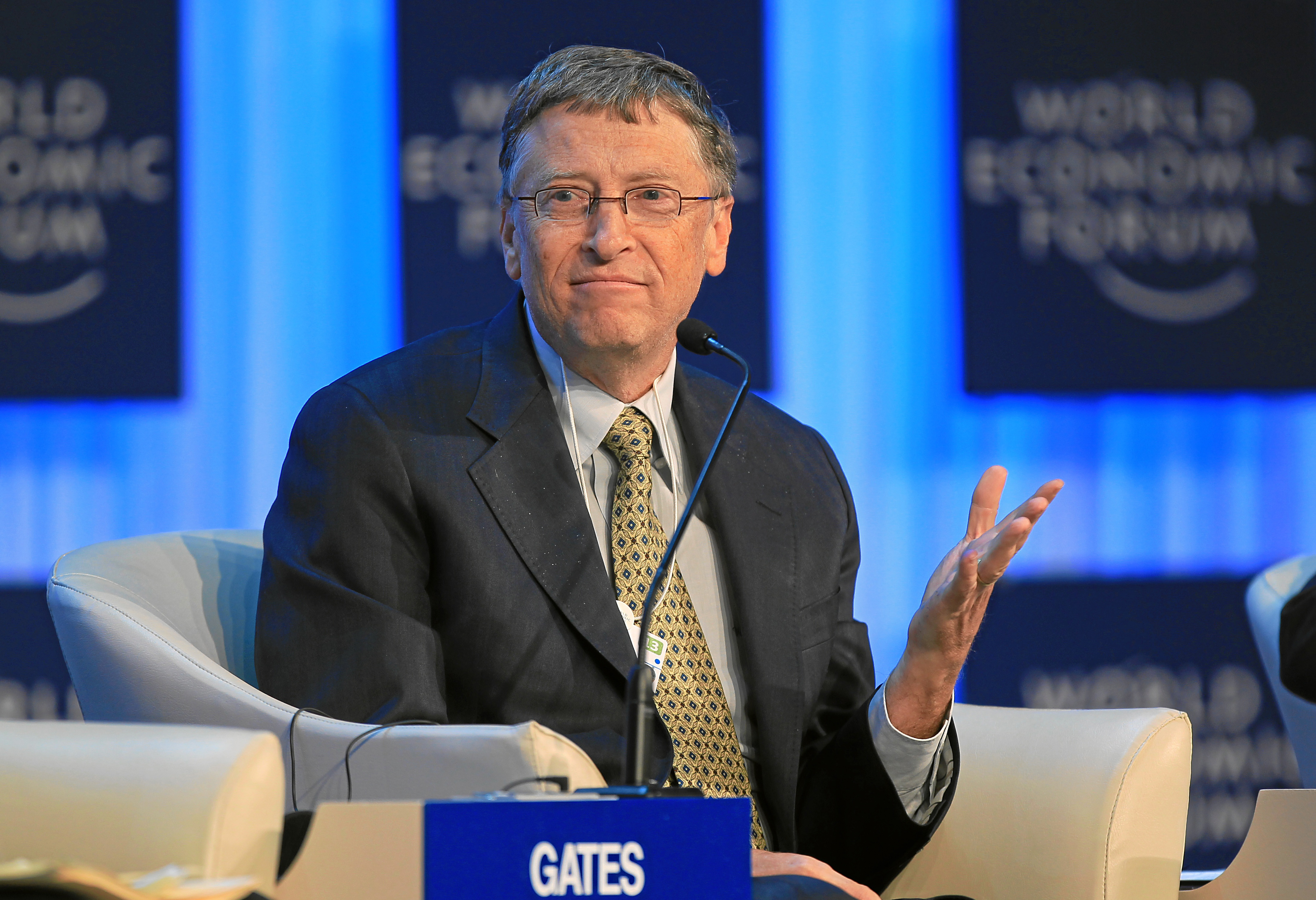 DAVOS/SWITZERLAND, 24JAN13 - William H. Gates III, Co-Chair, Bill & Melinda Gates Foundation, USA talks during the session 'The Global Development Outlook' at the Annual Meeting 2013 of the World Economic Forum in Davos, Switzerland, January 24, 2013. . . Copyright by World Economic Forum. . Sebastian Derungs